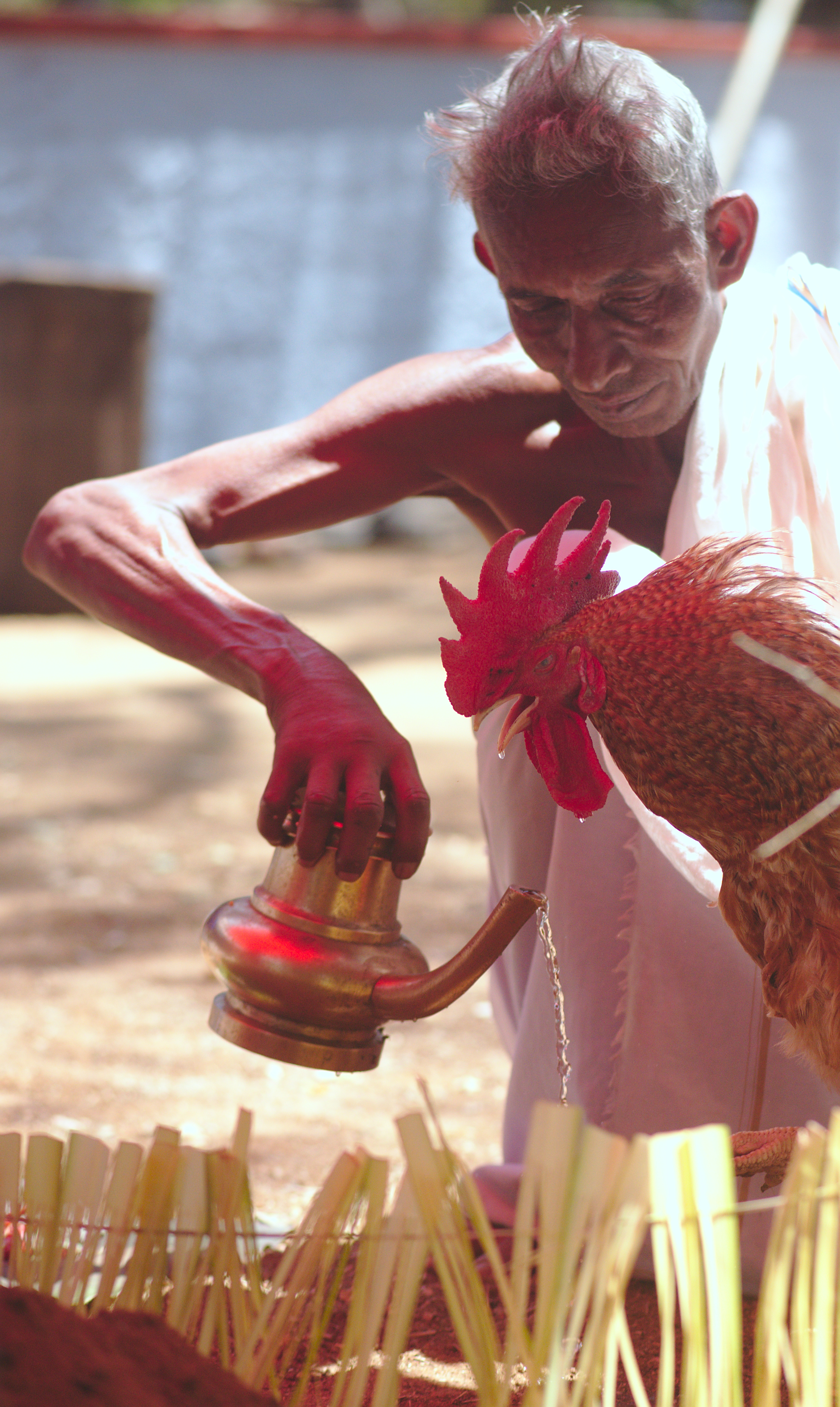 A rooster is being prepared to get it burried alive below earth prior to Ucheli theyyam